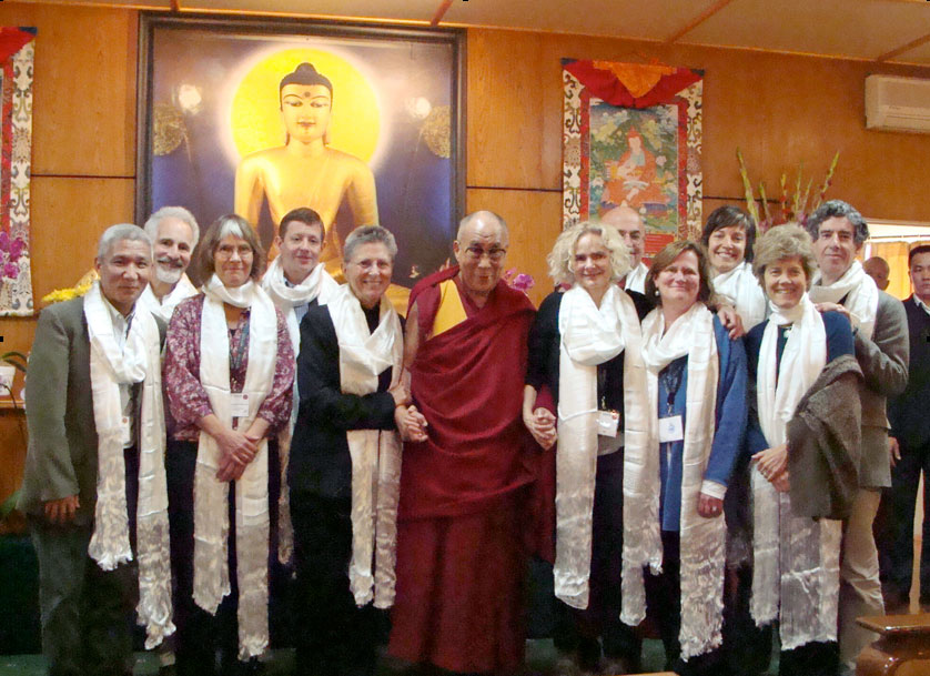 Dr. Nora Volkow with the Dalai Lama and other participants in the Mind and Life Conference on Craving, Desire and Addiction in Dharamsala, India